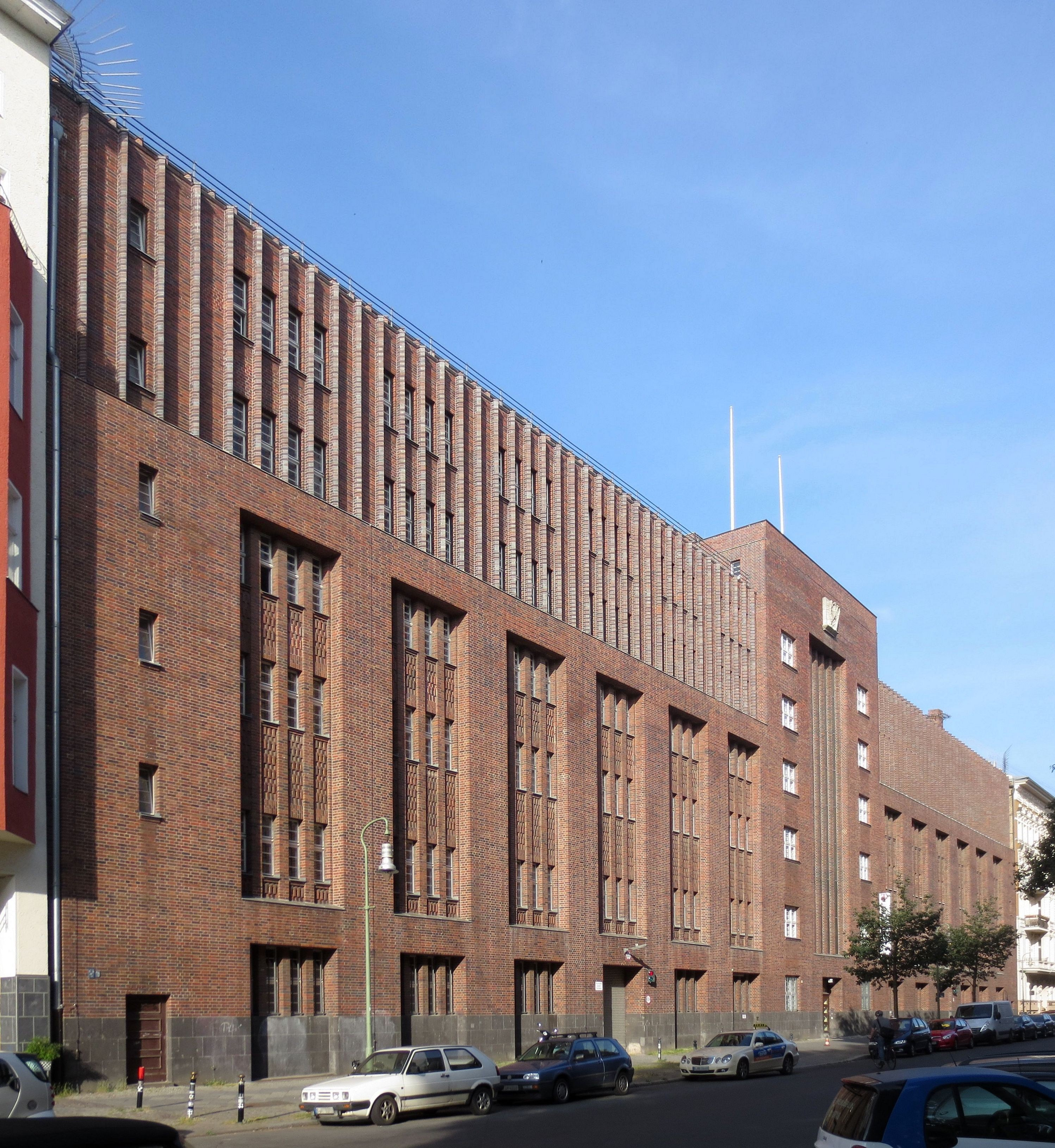 The Telecommunications Office 1 at Winterfeldtstraße No. 19/23 in Berlin-Schöneberg. The large complex with four inner courts was constructed from 1922 to 1929 to designs by Otto Spalding und Kurt Kuhlow. It has been designated as a cultural heritage monument